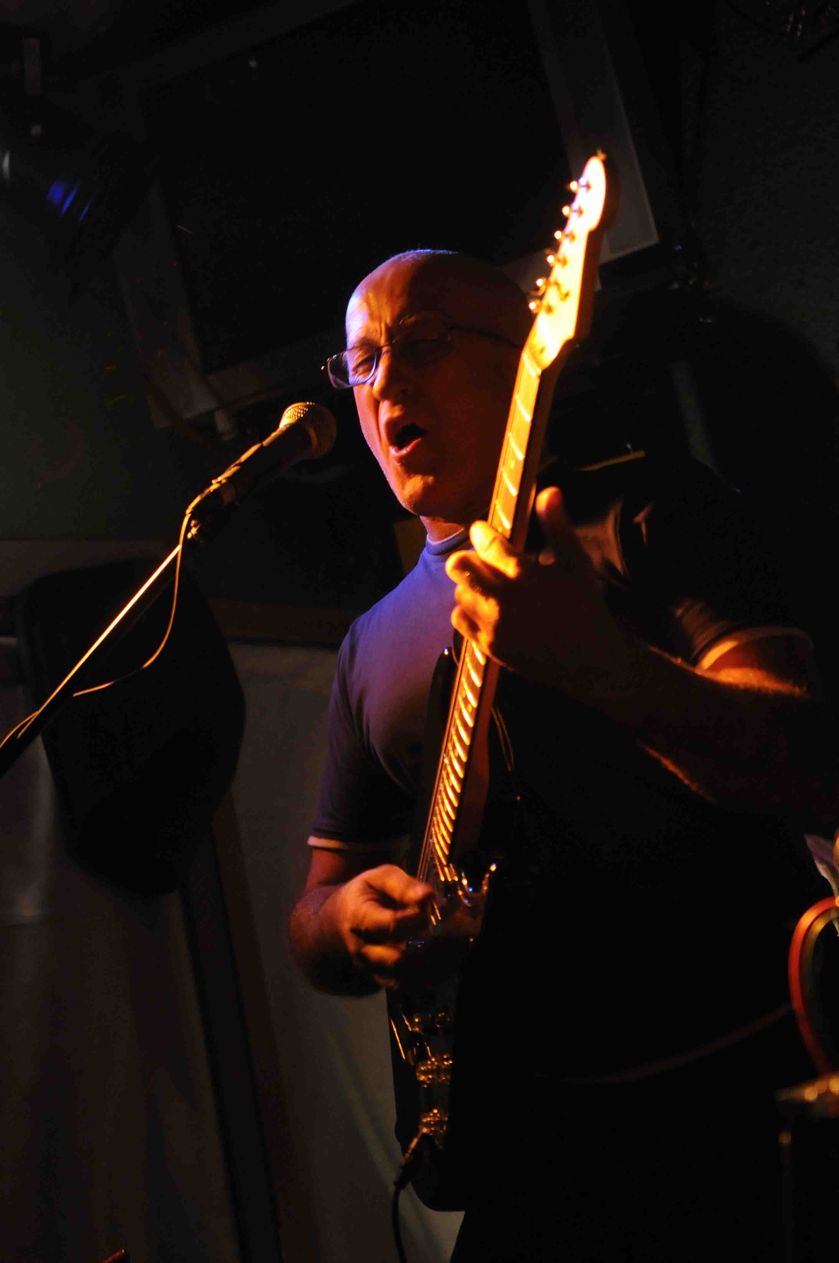 Antonio El Ruso